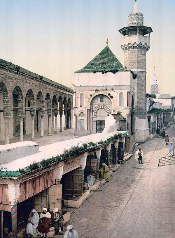 Photograph of the Sadiki Hospital, Tunis, Tunisia. This color photochrome print was taken in 1899 in Tunis, Tunisia.